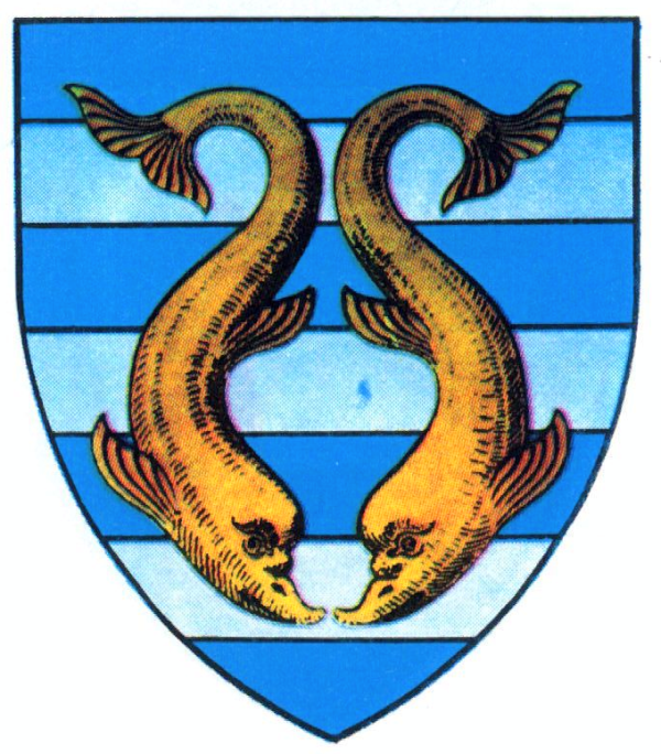 Interwar coat of arms of Tulcea County, Kingdom of Romania.